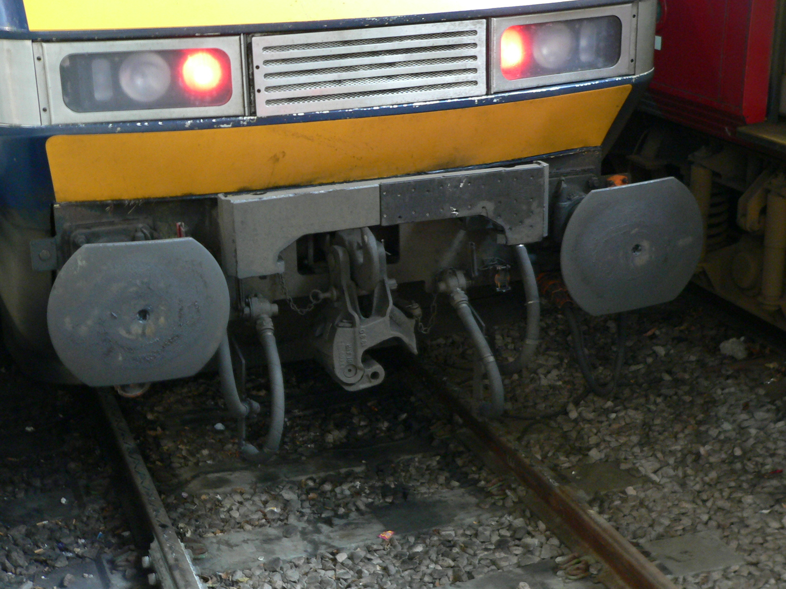 The coupling mechanism on GNER Class 91 electric locomotive 91116 Strathclyde, photographed at platforms 6 of Leeds City railway station. The locomotive is equiped with both hook-and-chain and knuckle type couplers, in fitting with the Class 91's original intended use for both freight and passenger services.